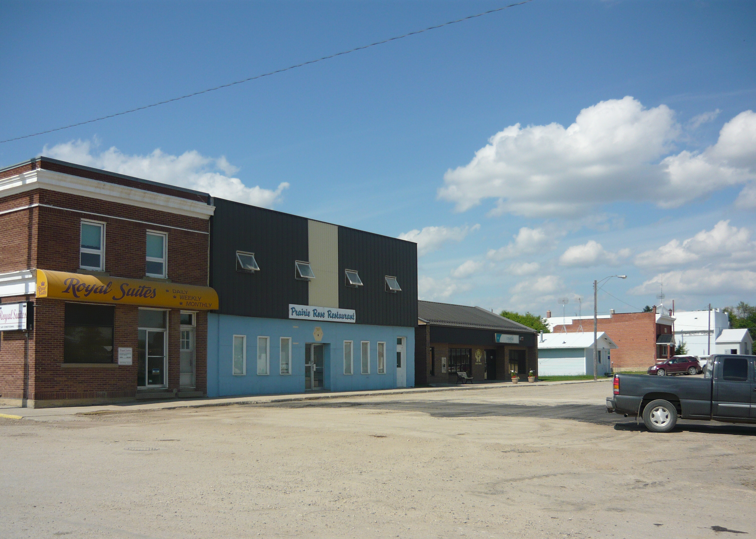 Main Street in Young, Saskatchewan, Canada. Taken from the intersection of 1st Avenue and Main Street.